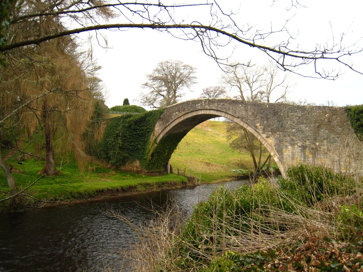 Alloway: the auld Brig o'Doon The Brig o'Doon is, of course famous as the place where Tam o'Shanter and his horse Meg escaped the witch Nannie in Robert Burns' poem. Now, do thy speedy utmost, Meg, And win the key-stane o' the brig; There at them thou thy tail may toss, A running stream they dare na cross. But ere the key-stane she could make, The fient a tail she had to shake! For Nannie, far before the rest, Hard upon noble Maggie prest, And flew at Tam wi' furious ettle; But little wist she Maggie's mettle - Ae spring brought off her master hale, But left behind her ain gray tail; The carlin claught her by the rump, And left poor Maggie scarce a stump.